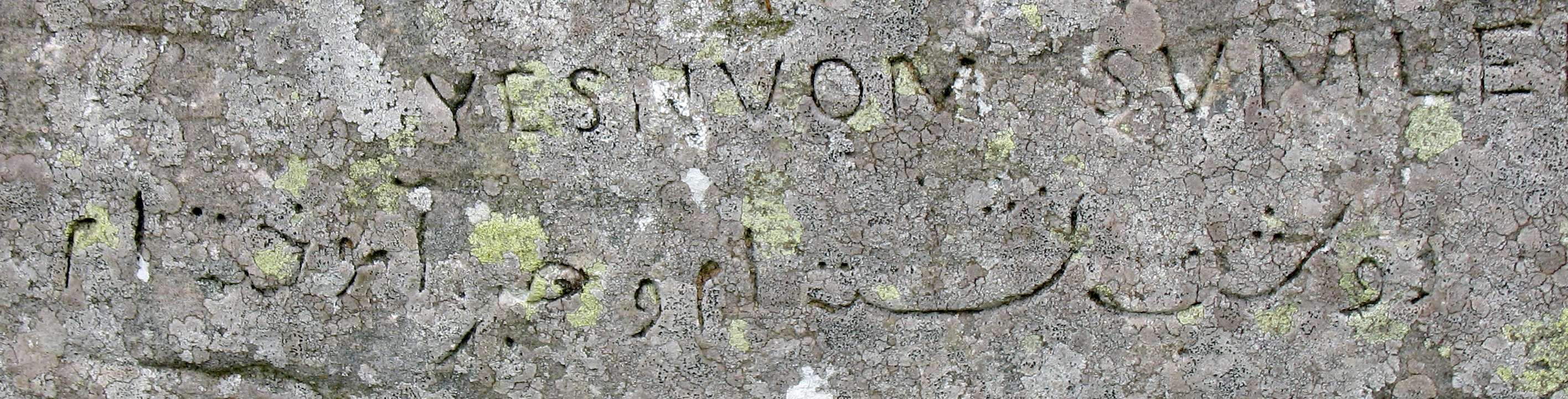 This is an inscription in Persian calligraphy on the Dwarfie Stane. It was left by captain William Henry Mounsey of Castletown and Rockcliffe, who camped here in 1850, and reads: "I have sat two nights and so learnt patience". Above the Persian is his name written backwards in Latin. The complete text is "YESNVOM SVMLEILVC". Visible here is "ELMVS MOVNSEY"; in mirror writing: "YESNVOM SVMLE". Mounsey was a British spy who worked in Persia and Afghanistan. After his retirement he wandered in the UK dressed in a Jewish outfit and visited the Neolithic rock-cut tomb. He was born in 1808 and christened at Saint Cuthbert's Church in Carlisle in Cumbria, had a military career and became an amateur archaeologist (c.1850). He wrote about the Celtic culture (c.1860) and lived for some time at the Castletown House near Carlisle (c.1870). He died in Carlisle in 1877.